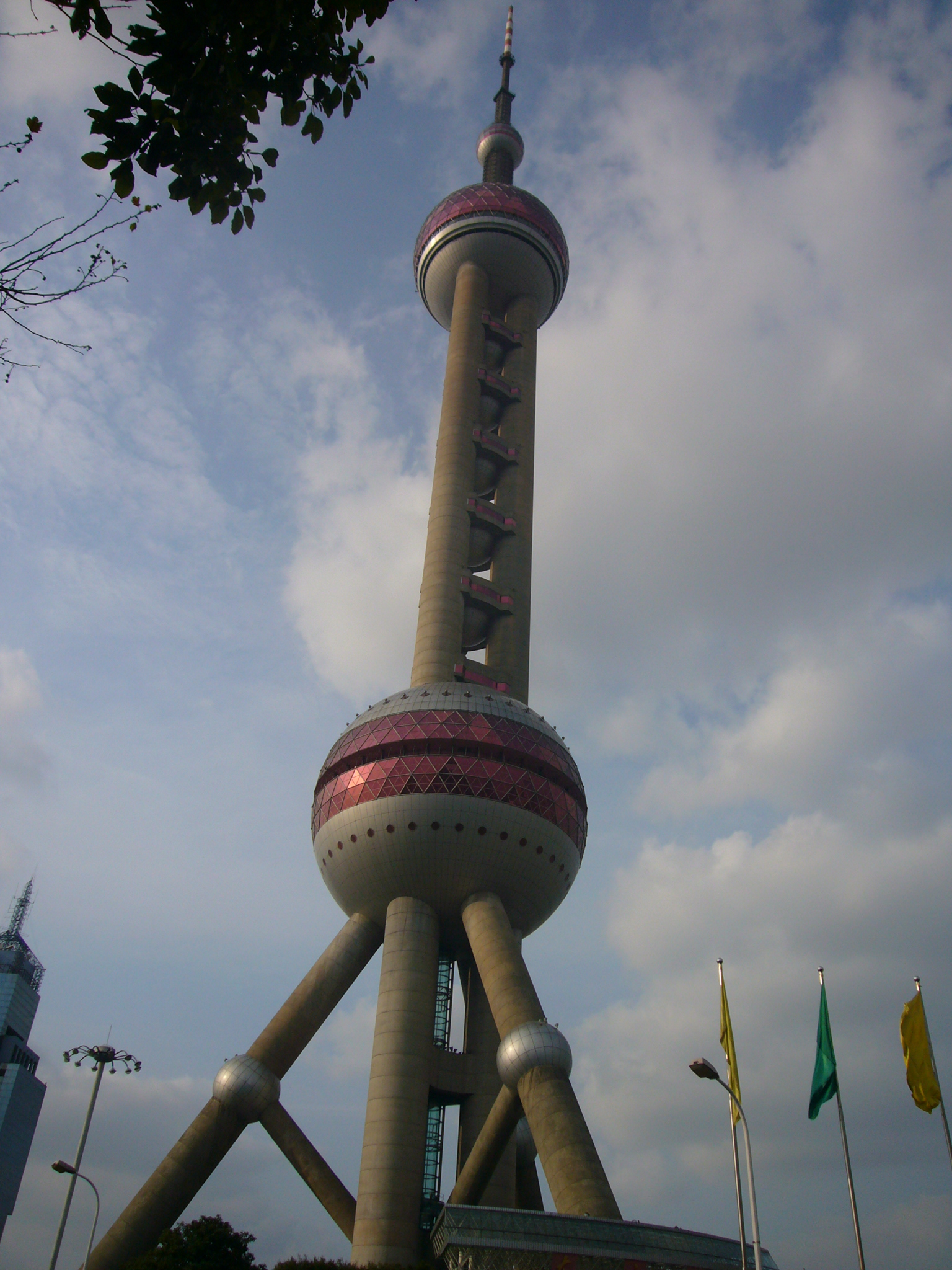 Oriental Pearl Tower